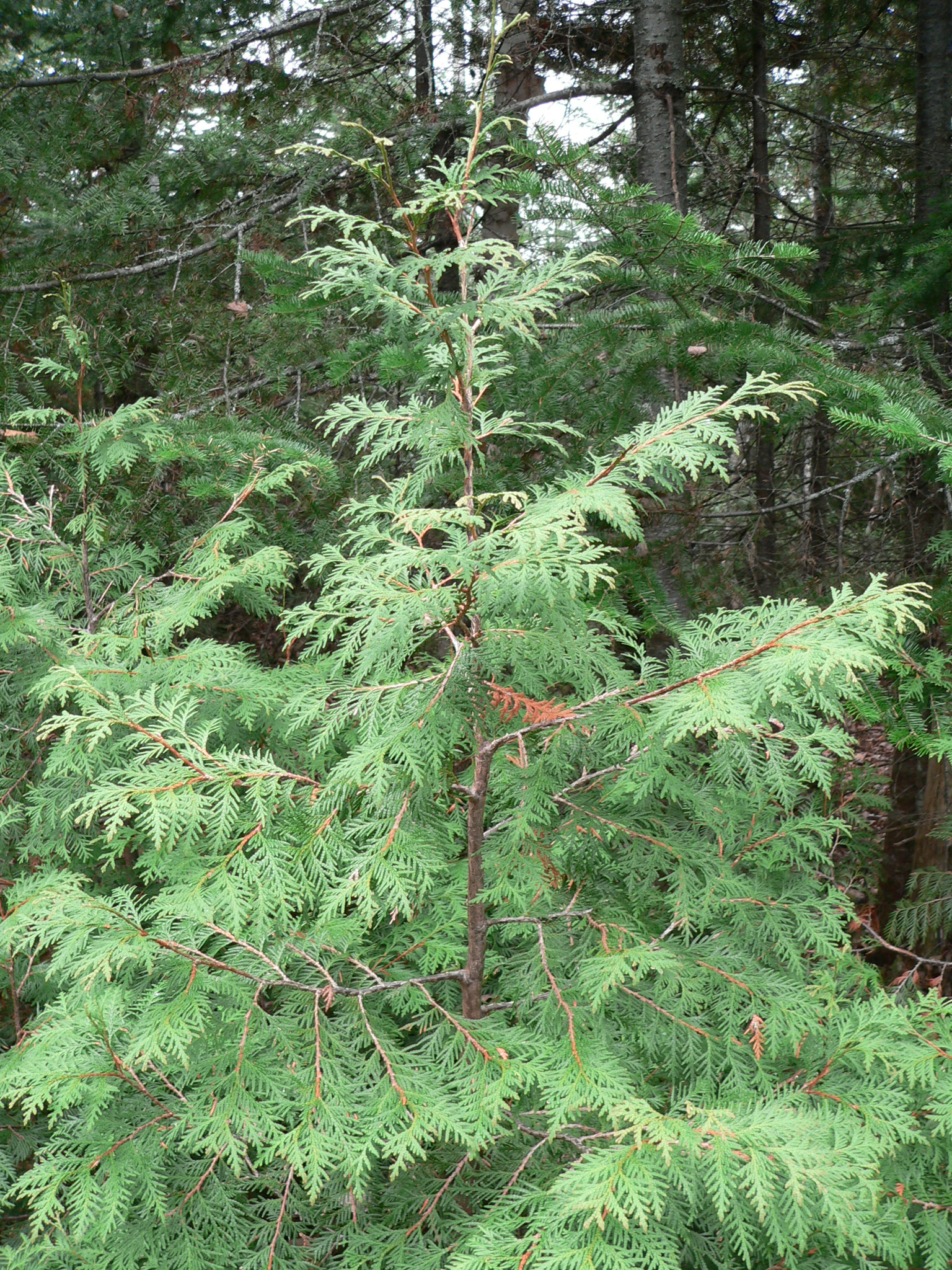 Understory Northern Whitecedar Thuja occidentalis in Quebec, Canada